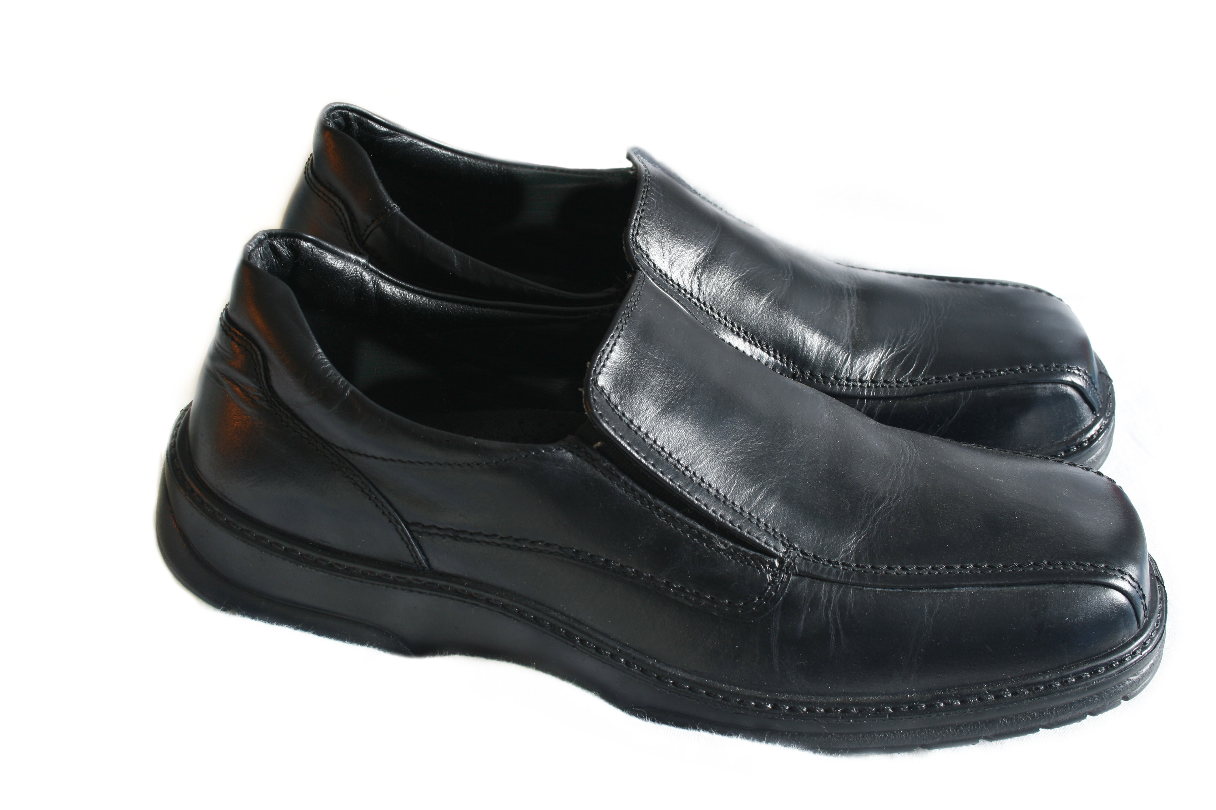 A pair of Blue brand black leather side-gusset shoes